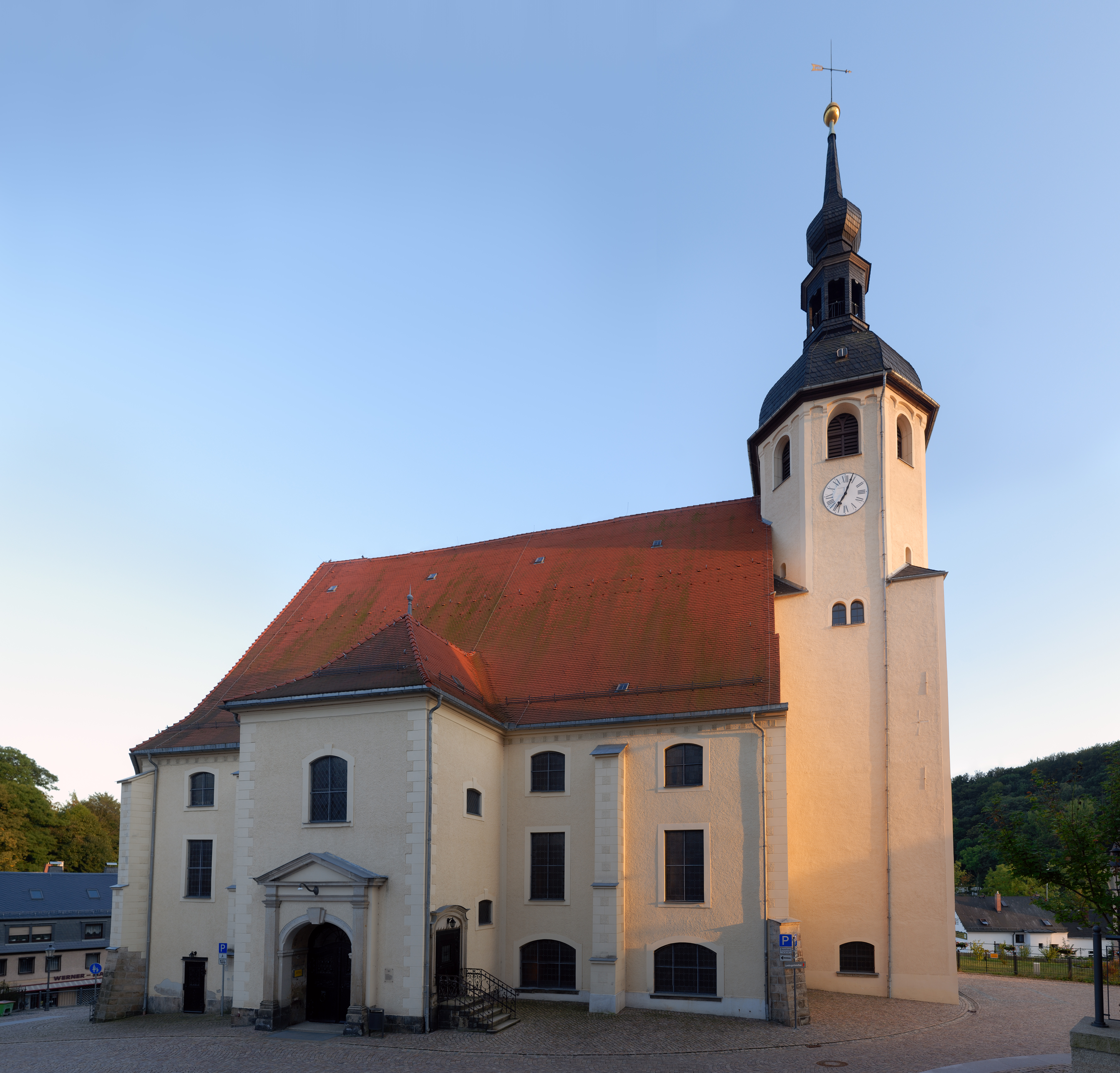 This image shows the Peter Paul church in Reichenbach, Germany. It is a eleven segment panoramic image.